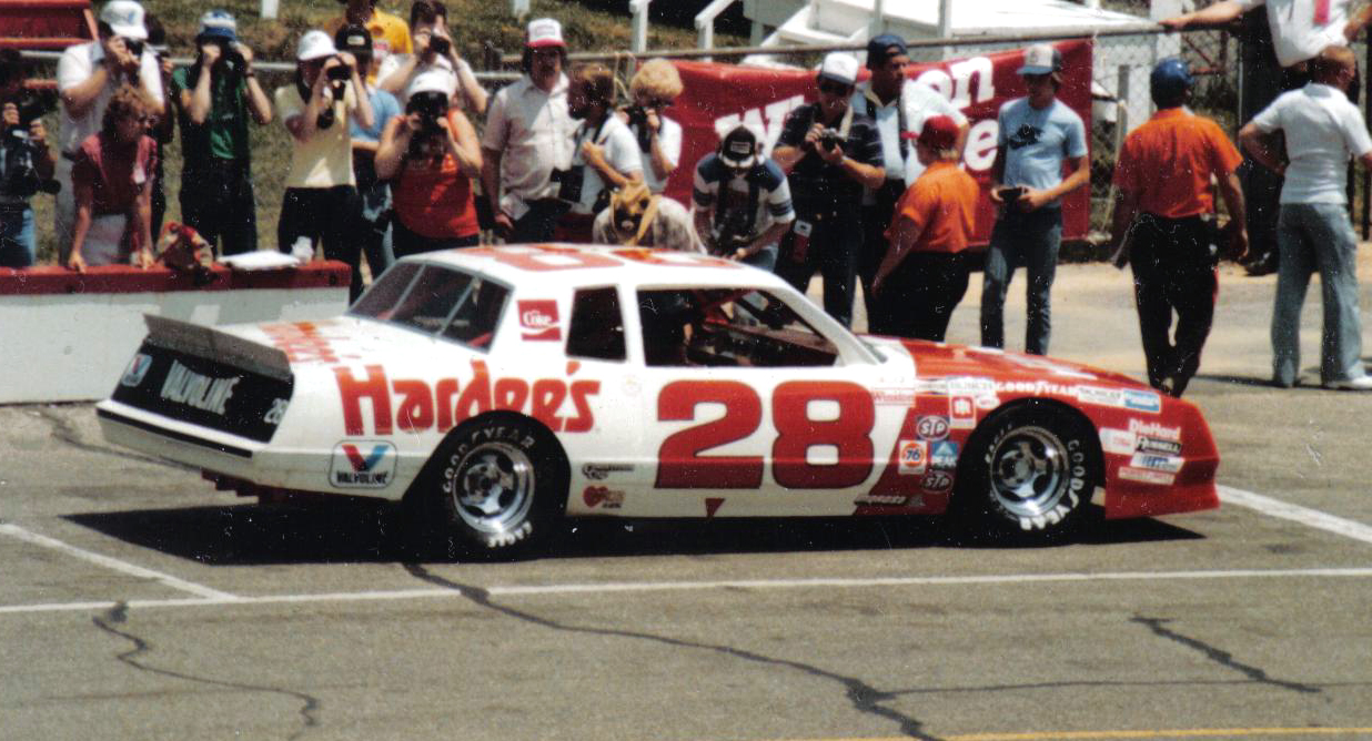 The Harry Rainier owned Hardees' #28 Chevy of Cale Yarborough. Cale dropped out, finishing 27th in the 1983 Van Scoy 500.Cale Yarborough #28